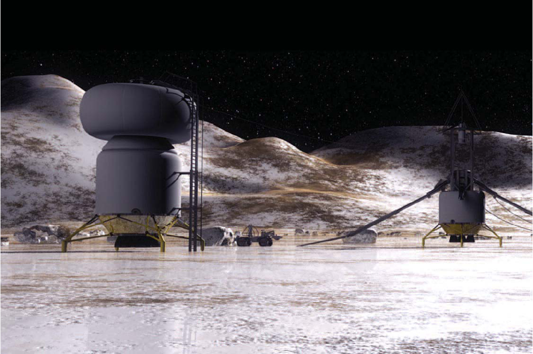 An artist’s rendering of a human exploration base on Callisto, Jupiter’s second largest moon.